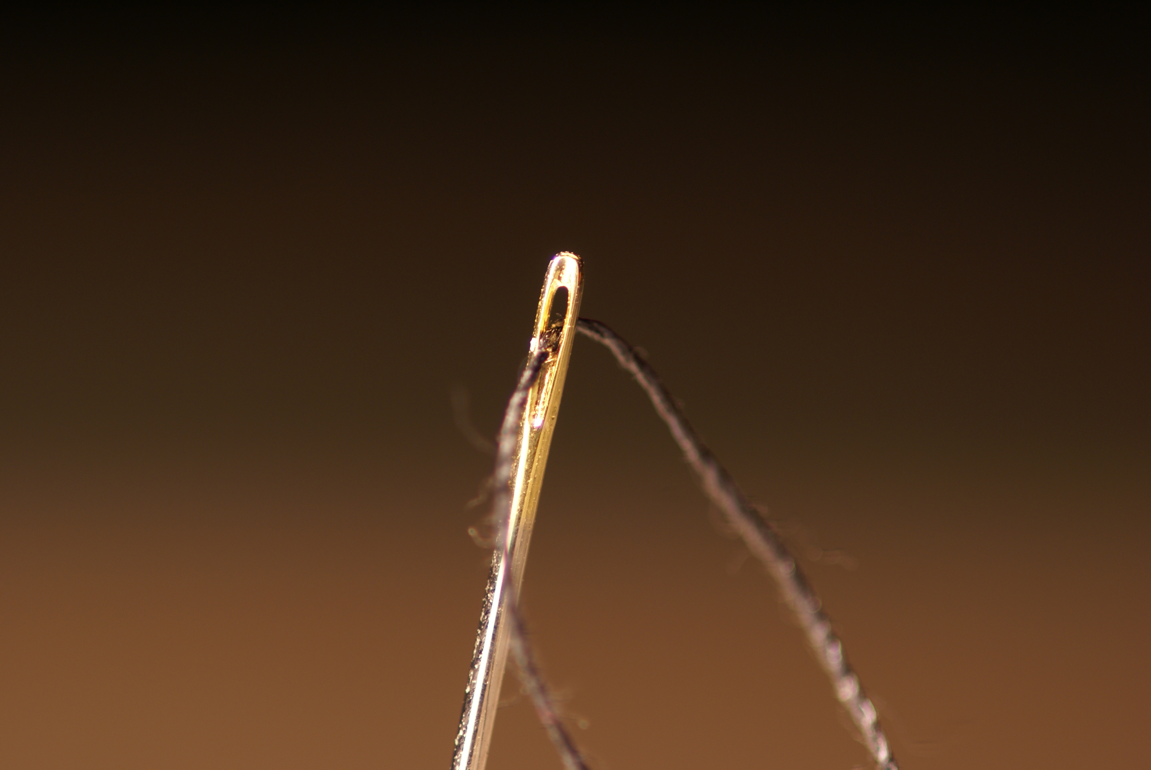 This is the eye of a sewing needle, sharp size number 5, with a strand of black all purpose cotton/polyester blend thread. The entire needle is about 3.8cm in length, of which only about 1.5cm is shown in this photograph. The diameter of the needle at the eye, the widest part, is just under 1mm, with the shaft being slightly smaller. Although made of steel, this particular needle has a decorative gold colored plating nearest the eye end. Tiny scratches in the surface are readily visible. Also visible is the depression or recess channel along the eye to provide protection to the thread when it is being pulled through fabric. Taken with a Sony A100 camera using a Sony 2.8/100 Macro lens. Image has not been edited.